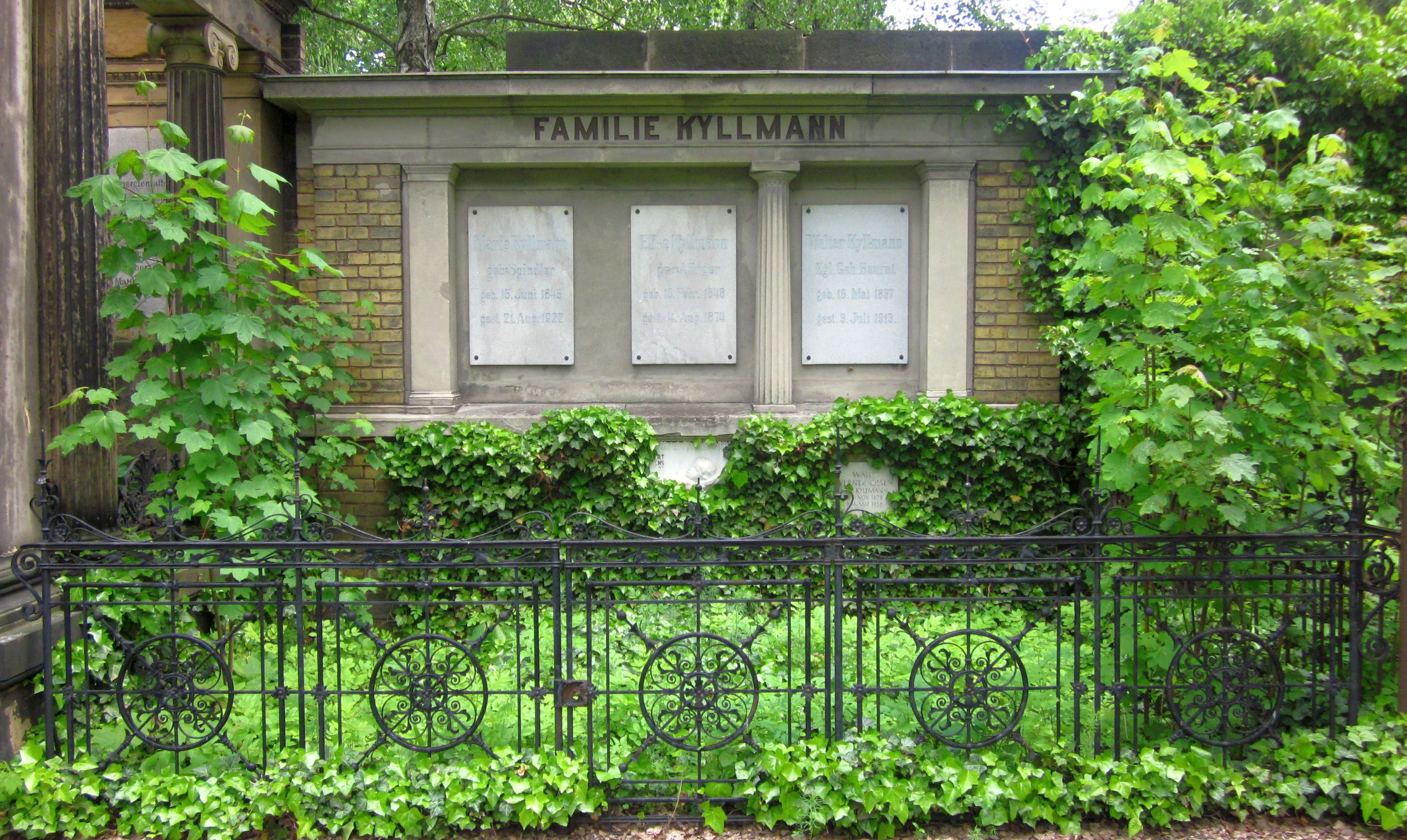 Family grave Kyllmann on the Dreifaltigkeitsfriedhof II cemetery at Bergmannstraße in Berlin-Kreuzberg. One of the family members buried here is the architect Walter Kyllmann (1837-1913).